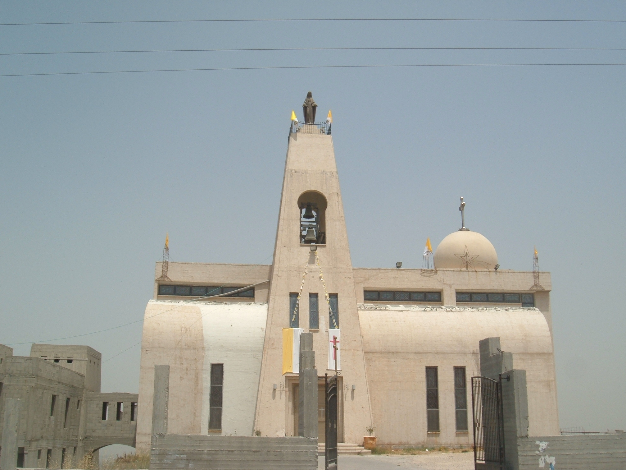 New Maronite St. Anthony Church (Anth. the Great) in Nazareth. הכנסיית אנטוניוס הקדוש המארונית החדשה בנצרת